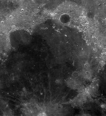 Mare Imbrium sits in the Imbrium basin. The basin material is of the Lower Imbrian epoch, with the mare material being of the Upper Imbrian and Eratosthenian epochs. The mare is lined with mountian ranges called montes to the south. The crater Copernicus is just visible in the bottom of the photo, while Plato is clearly seen on the northern rim. Sinus Iridum is seen connected to the mare on the northwestern rim. The crater Archimedes also visible in the picture as the lighter circular feature in the southeastern region of the mare.